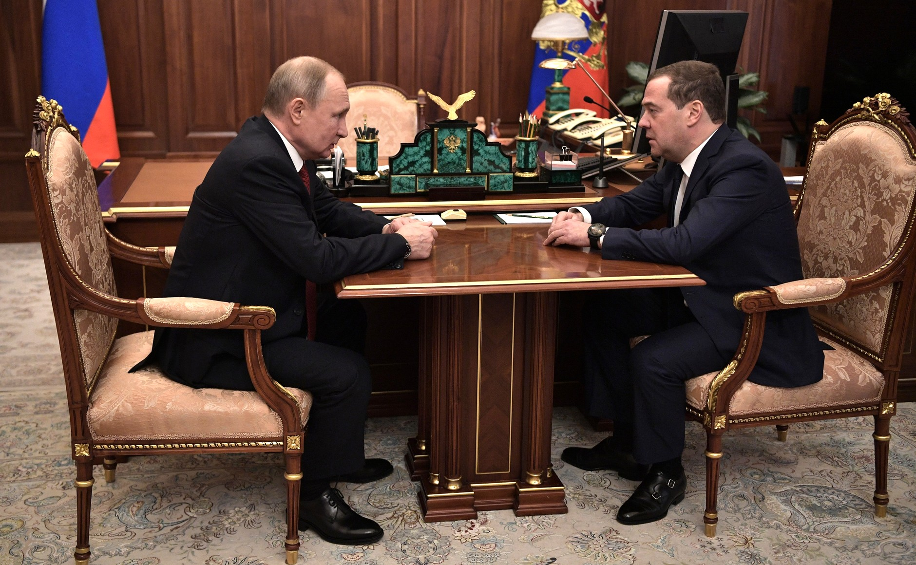 Vladimir Putin and Dmitry Medvedev 2020-01-15